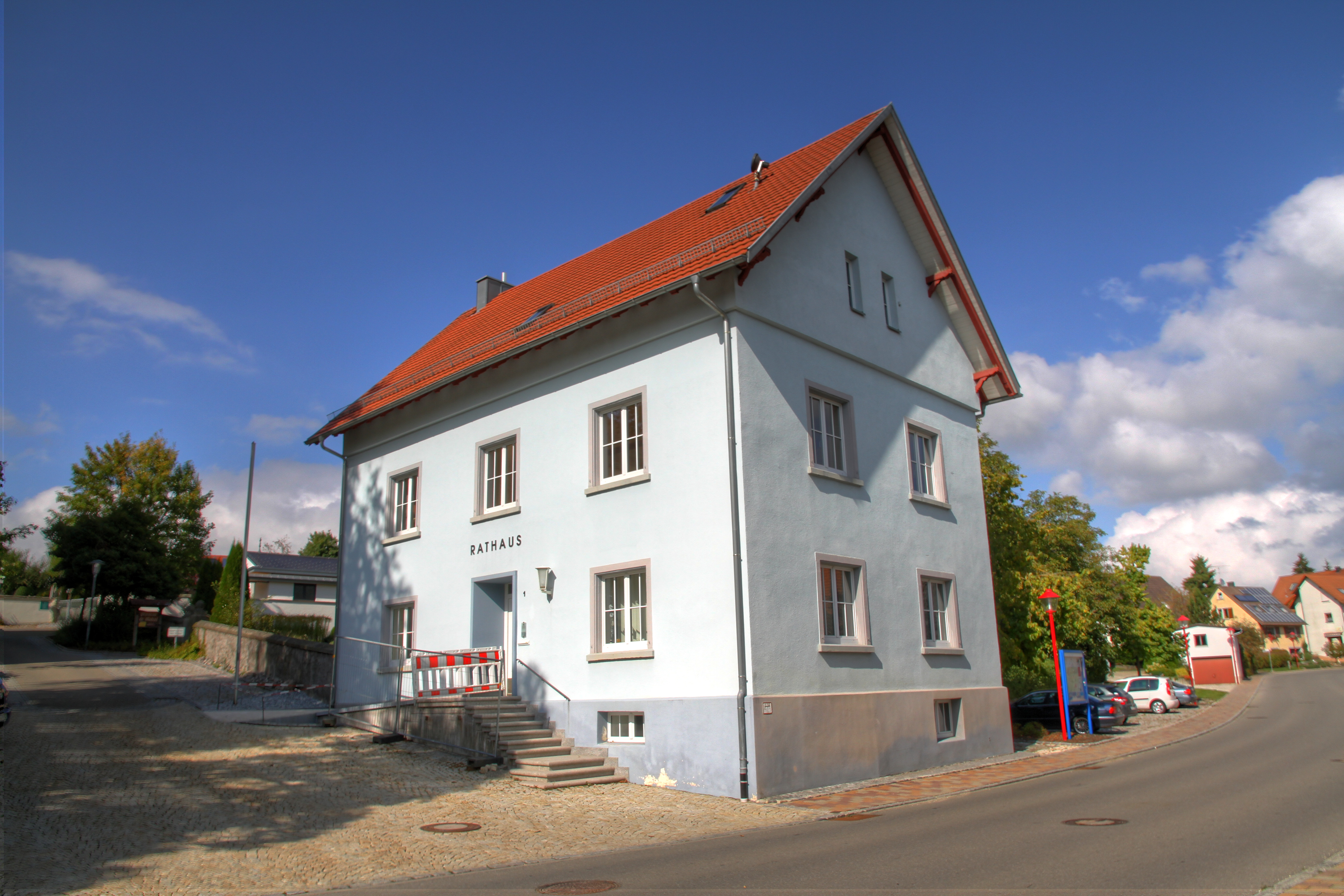 Town Hall of Liptingen, Rathausstraße 1